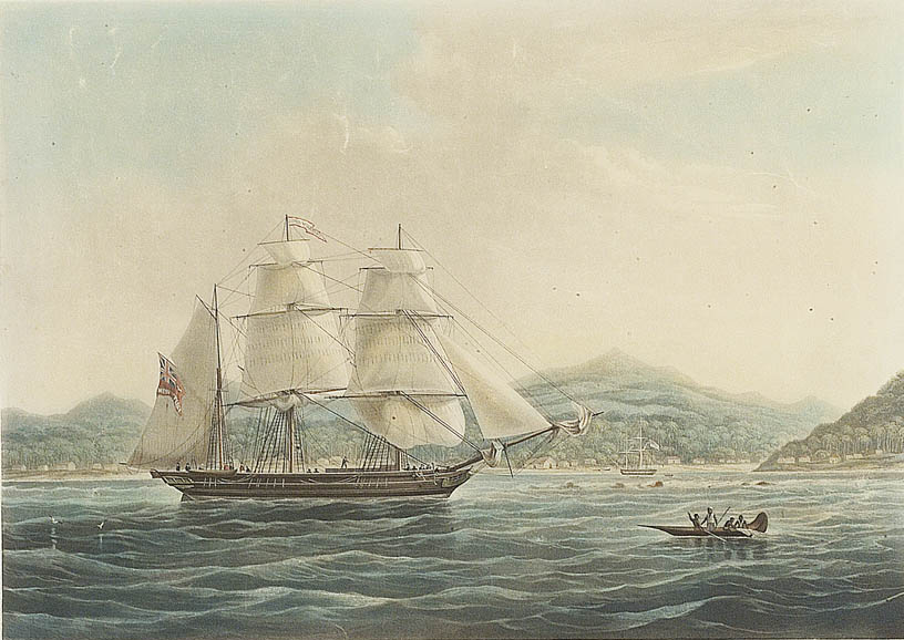 John Williams 1844 (missionary ship, 1844). Inscribed: To the Directors of the London Missionary Society... their New Ship The John Williams... entering the Bay of Hauhine, one of the Society Islands in the South Pacific Ocean